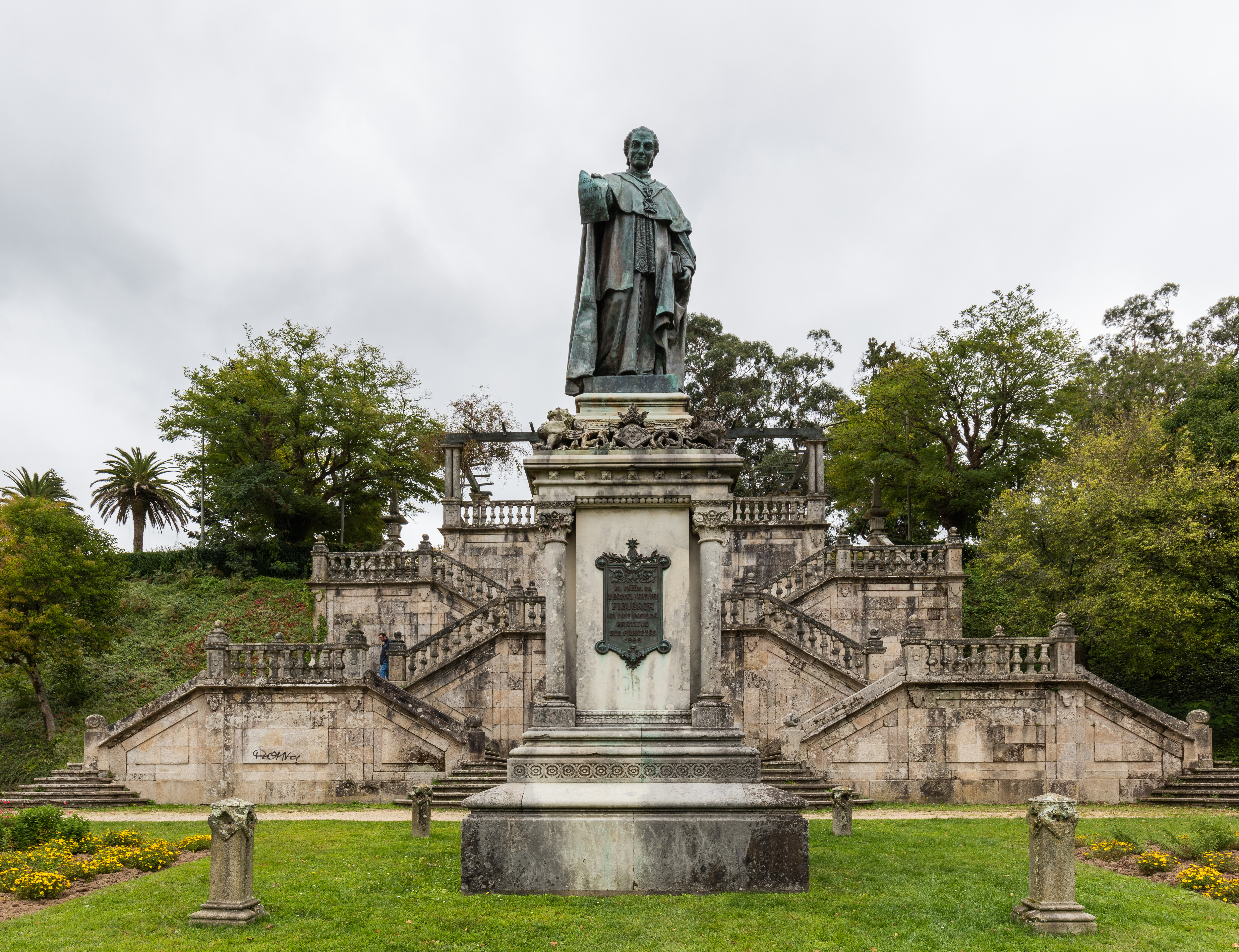 Alameda Park, Santiago de Compostela, Spain